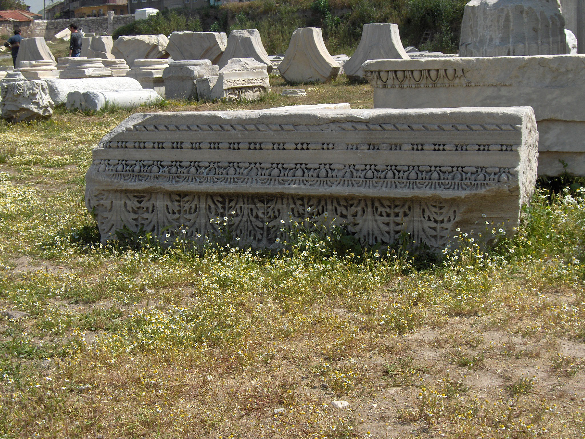 View on the agora; Izmir, Turkey